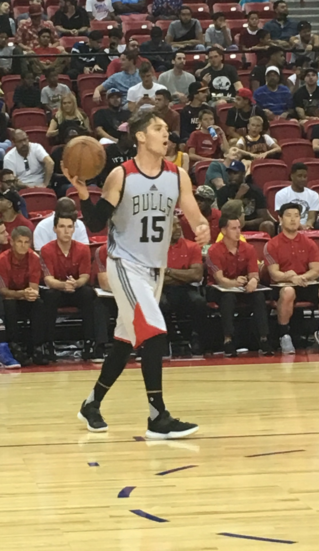 Ryan Arcidiacono at Summer League